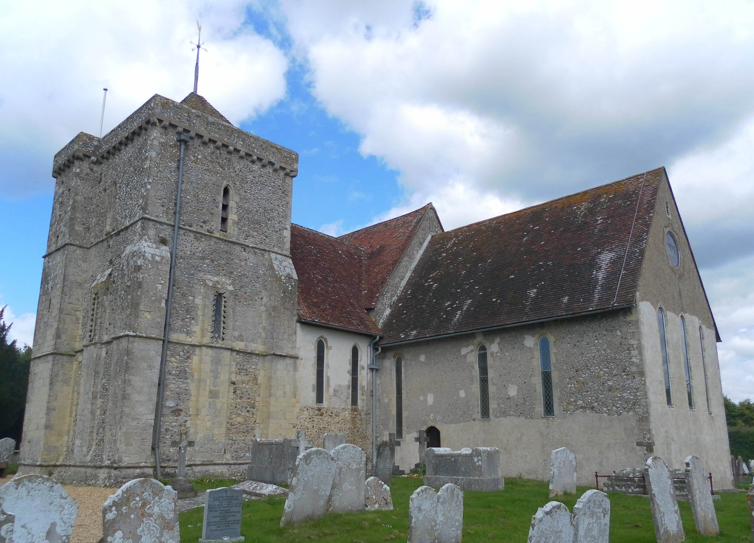 St Mary's Church, Climping, Arun District, West Sussex, England. The ancient parish church of Climping. Listed at Grade I by English Heritage (NHLE Code 1027640)